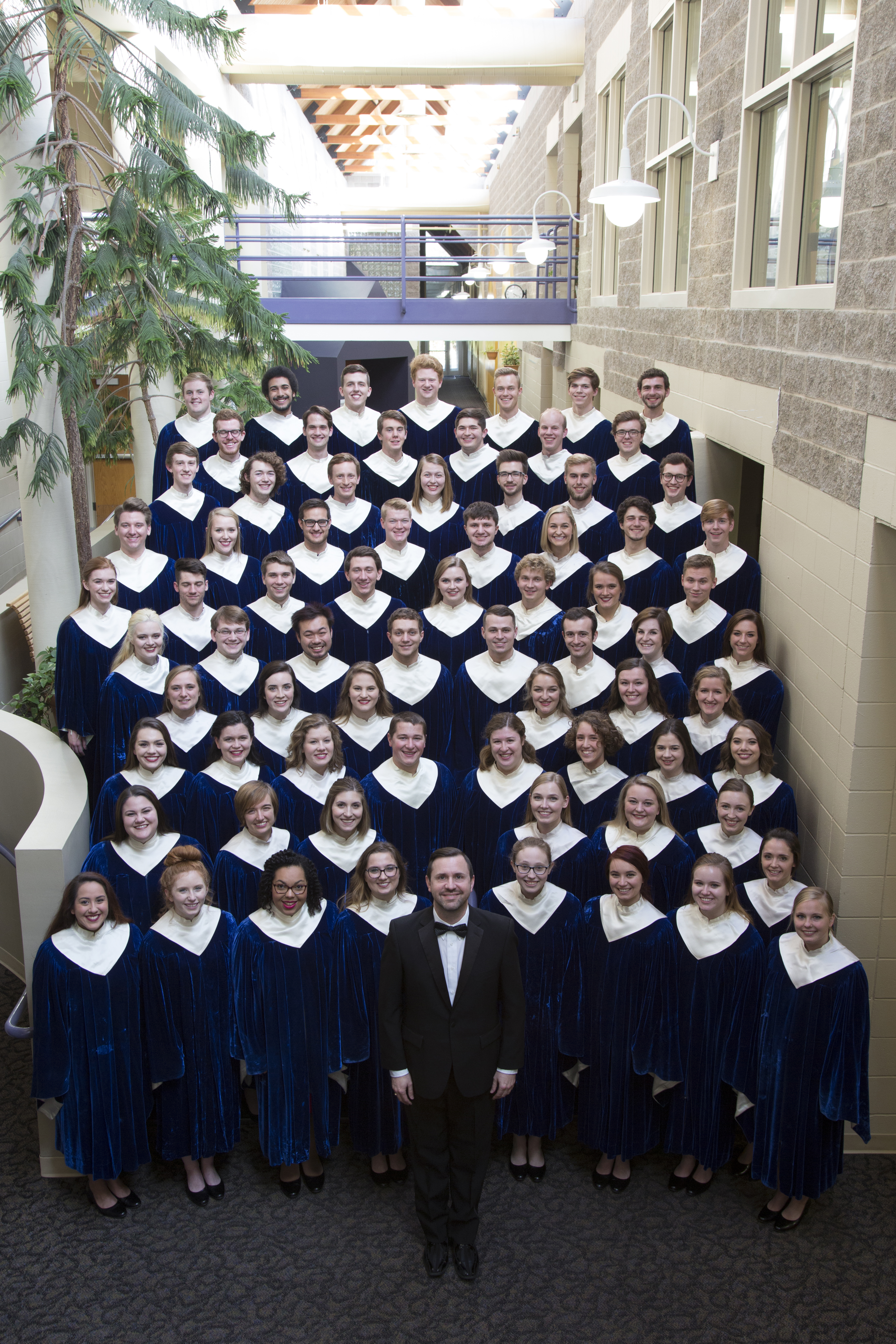 Group ensemble picture of the 2017-2018 Luther College Nordic Choir